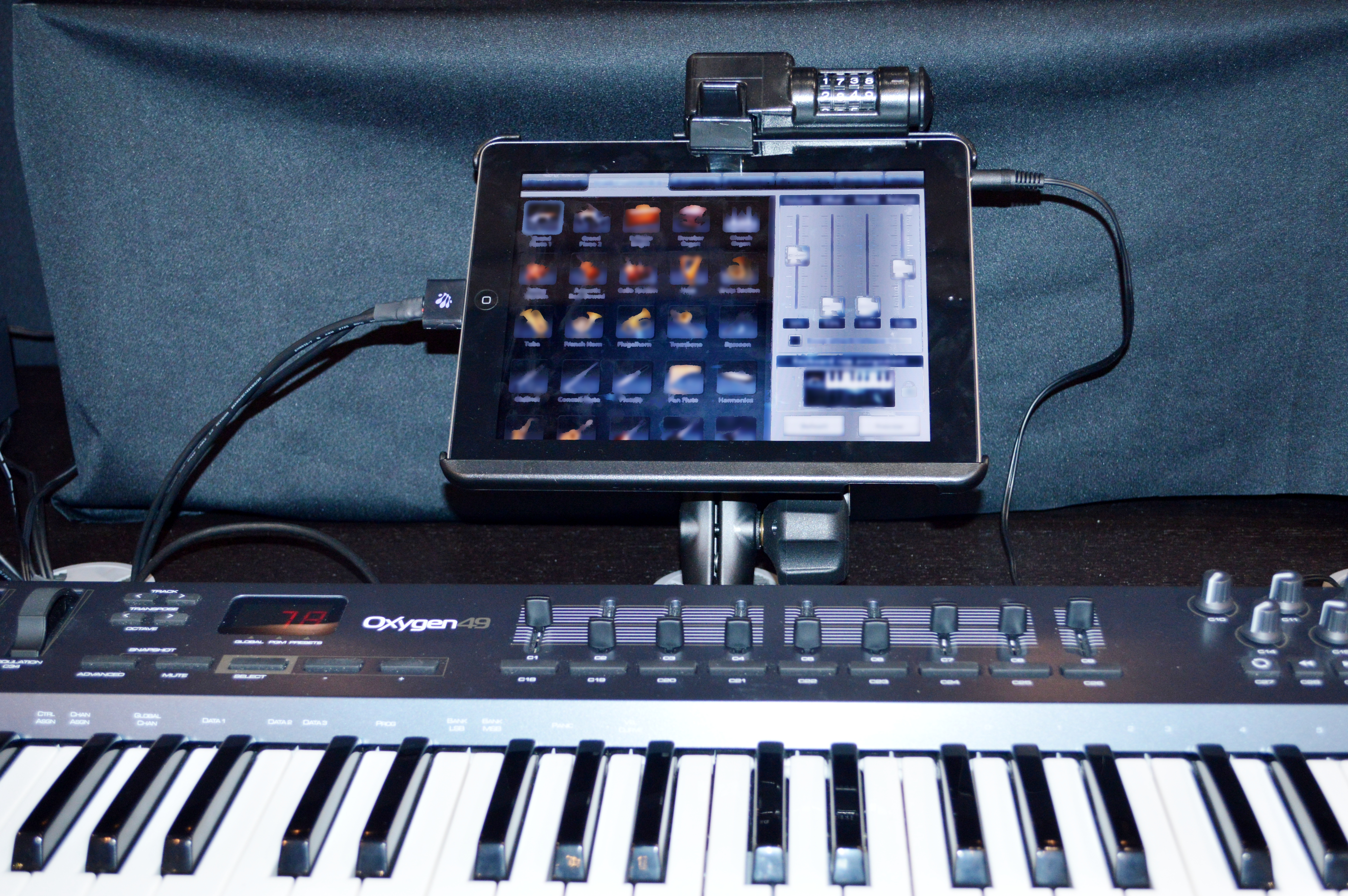 iPad synth app + KBD controller, CES2013